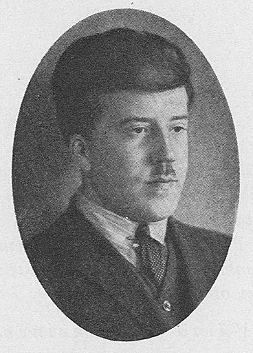 Finnish violinist and composer Arvo Hannikainen, early 1930s.